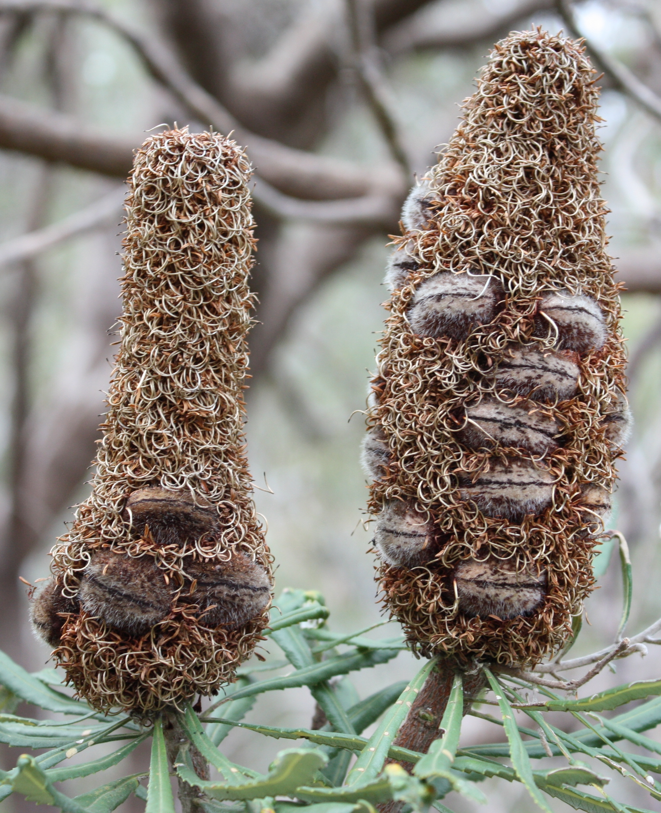 Infructescences of Banksia attenuata, Bold Park, Perth, Western Australia